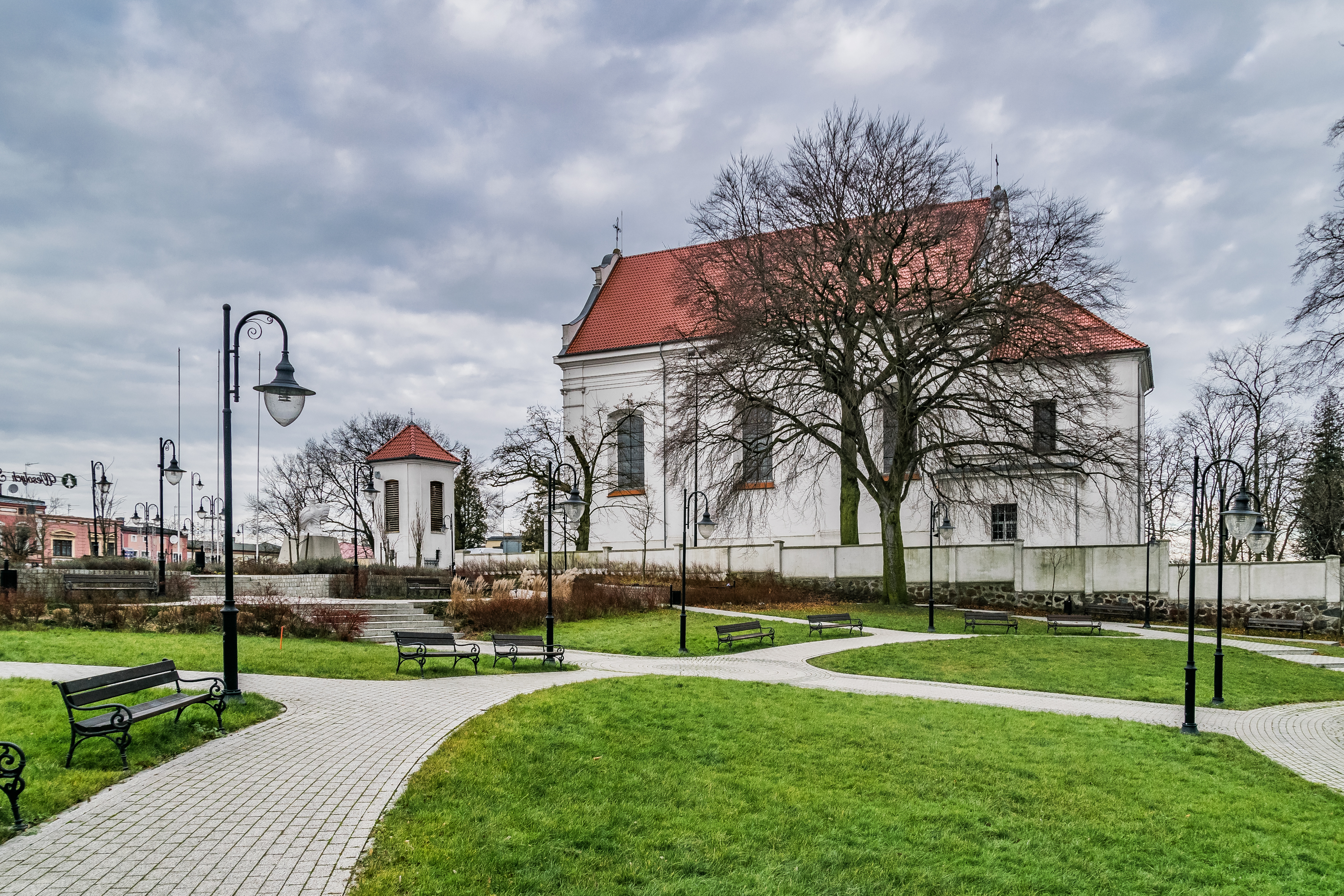 Saints Simon and Jude church in Więcbork, Kuyavian-Pomeranian Voivodeship, Poland